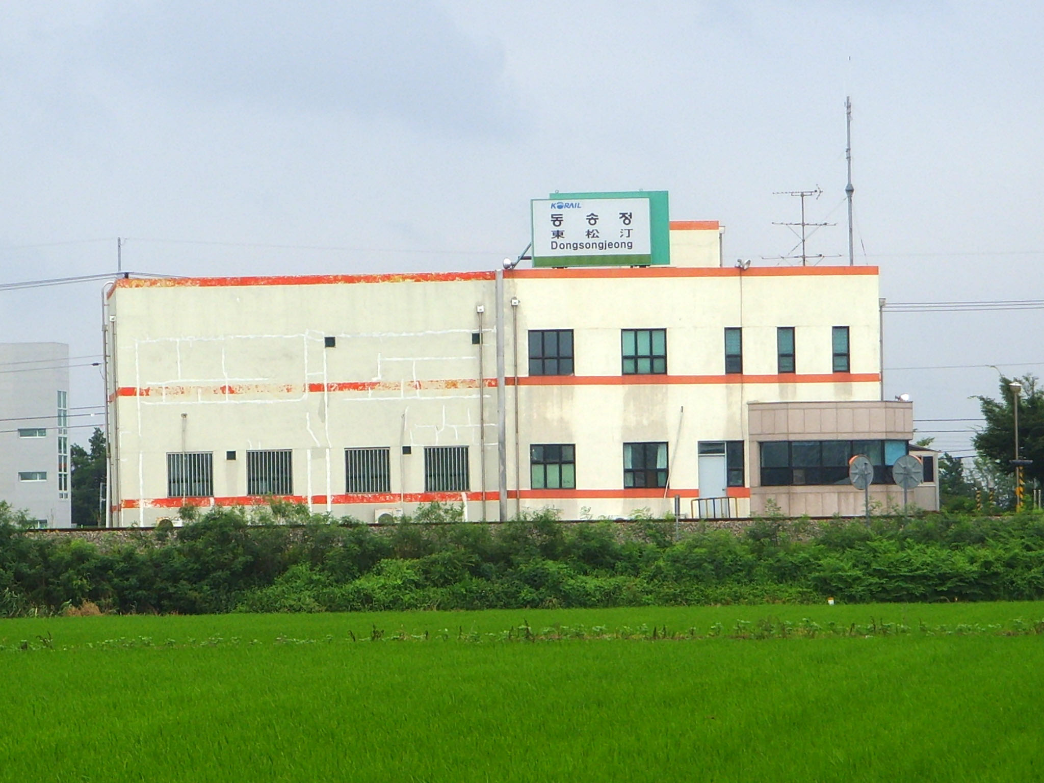 Gyeongjeon Line Dongsongjeong Station